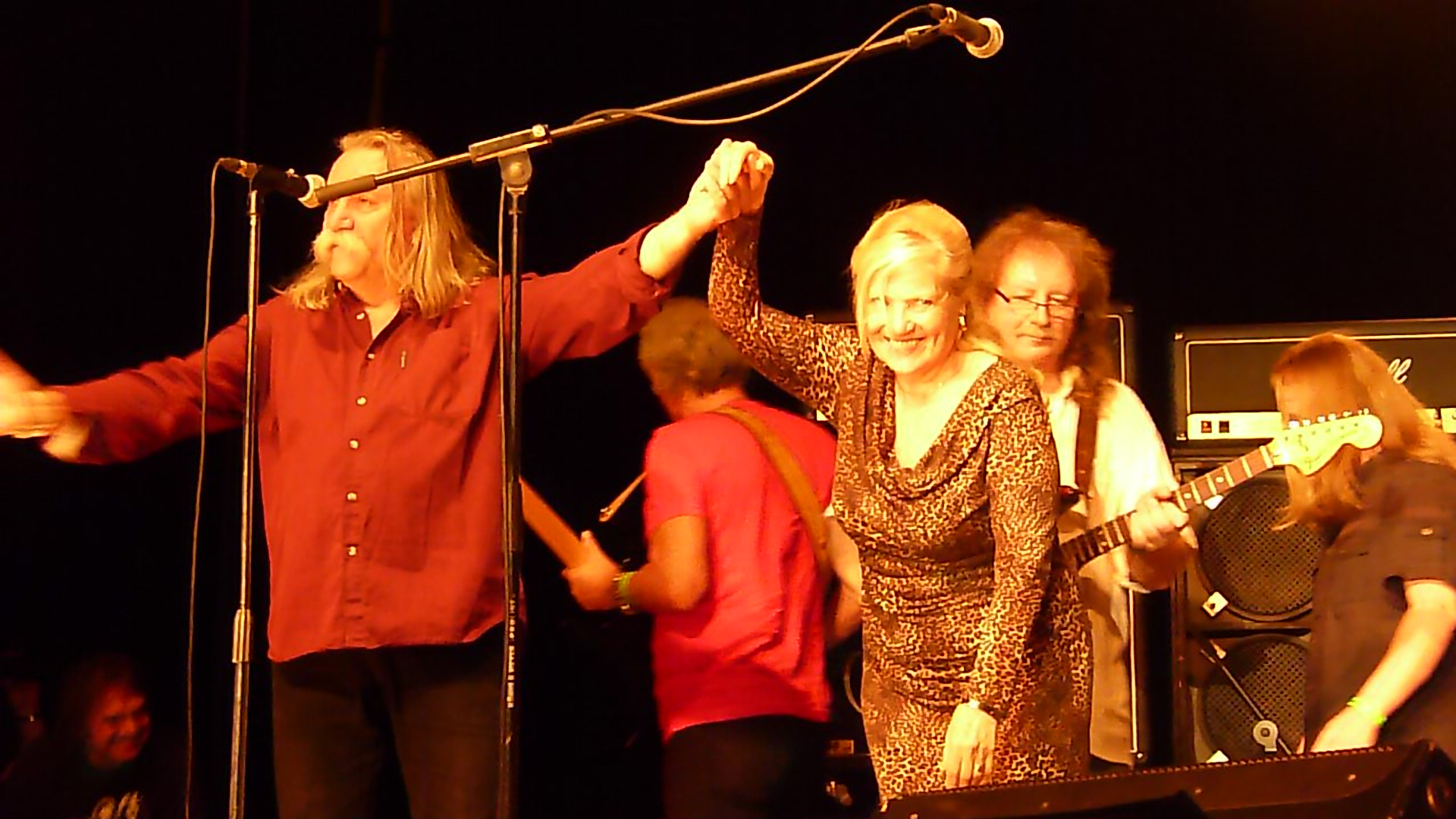 Elől Schuster Lóránt és Adamis Anna